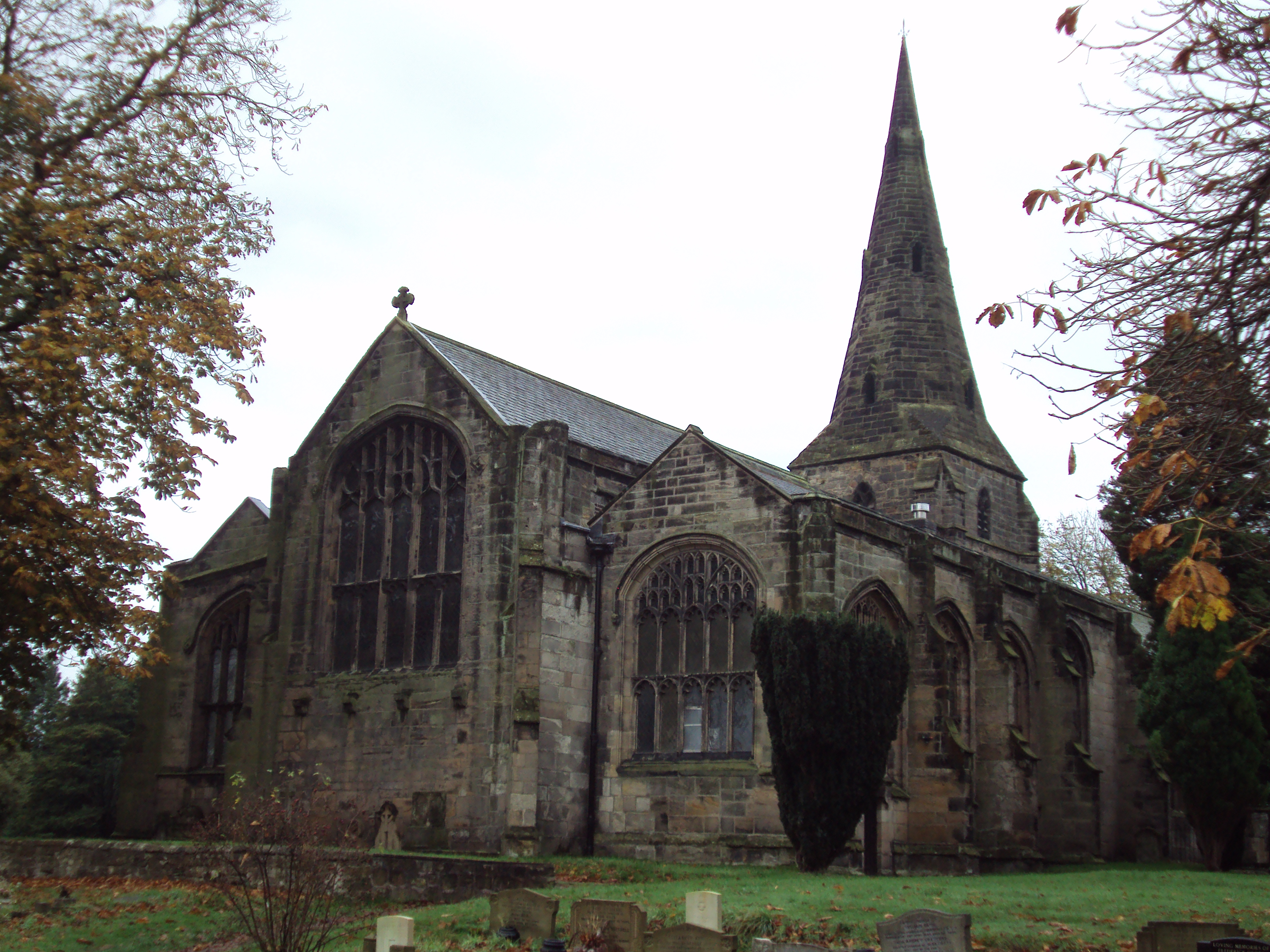 St Andrew's church from the northeast, Bebington, Wirral, Merseyside, England.